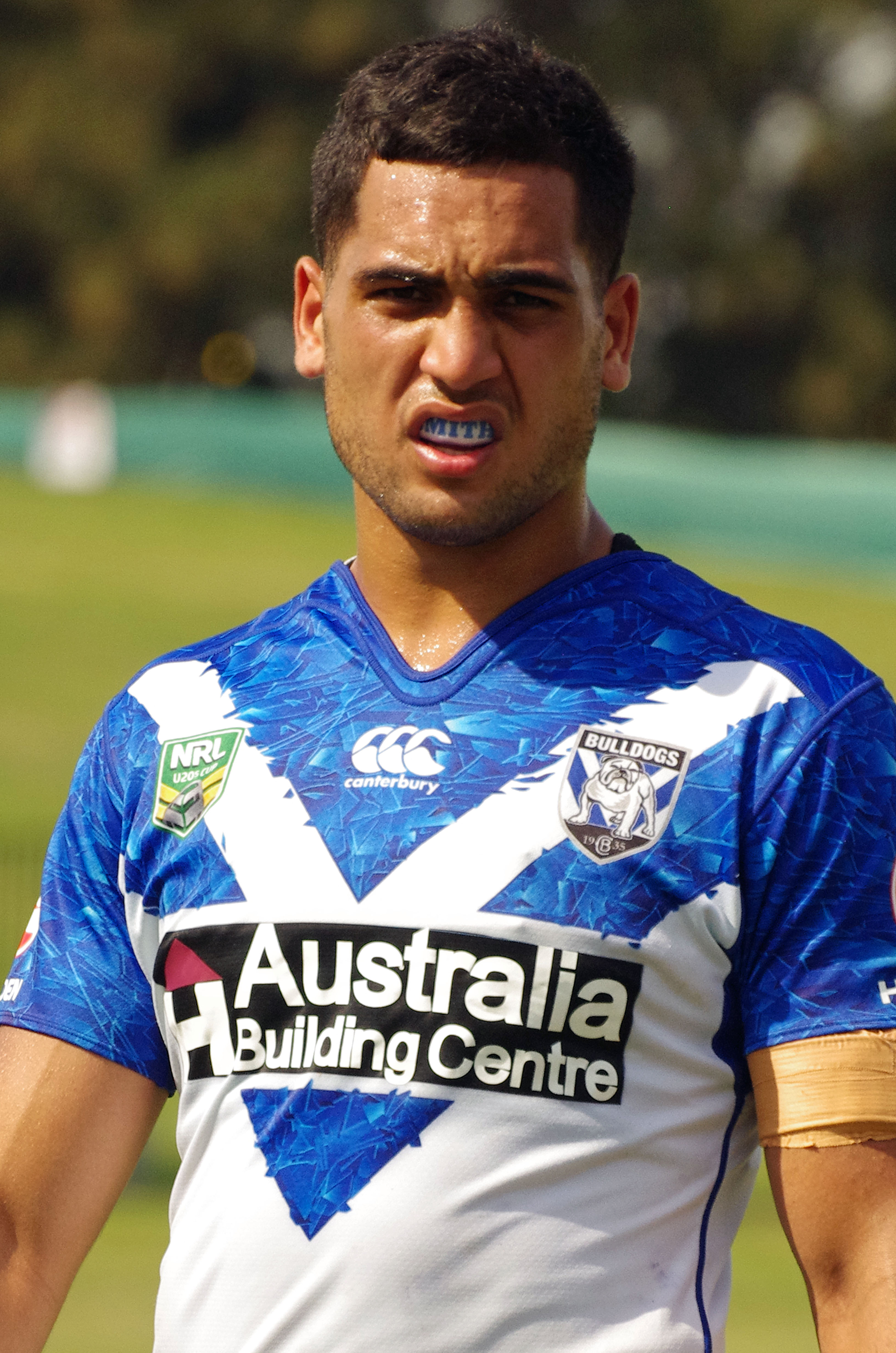 Reimis Smith